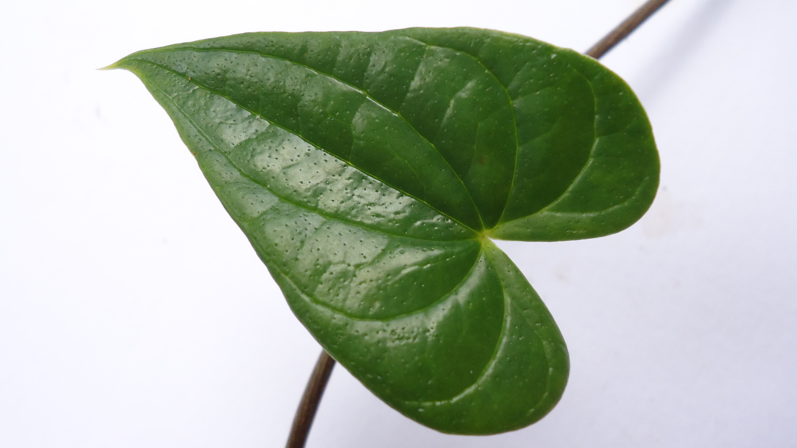 Dioscorea subg. Eudioscorea, Dioscoreaceae, Atlantic forest, northern littoral of Bahia, Brazil